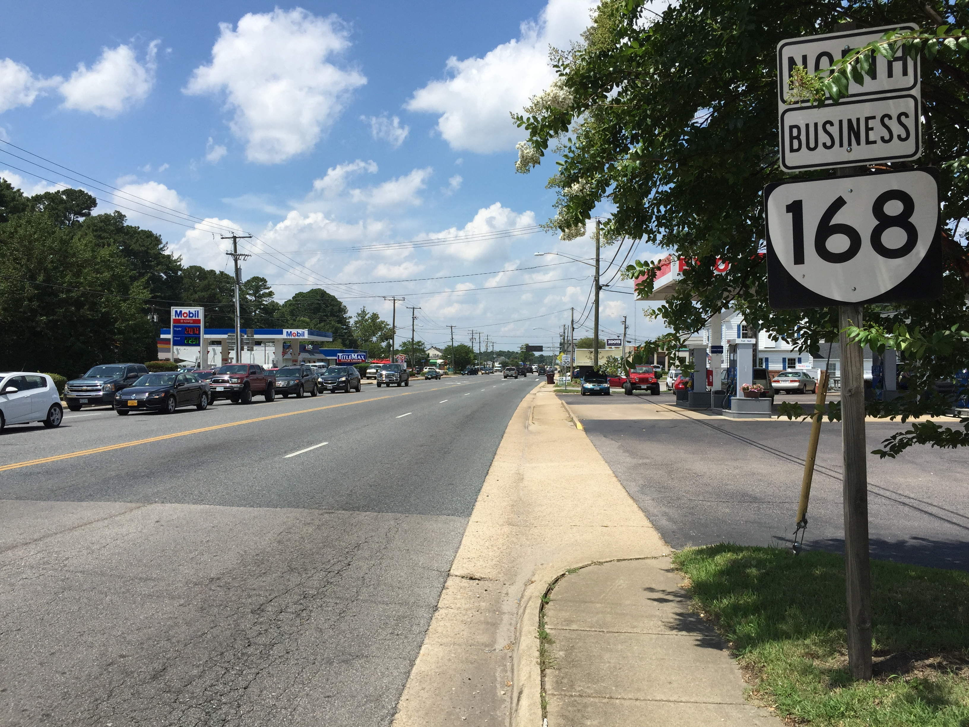 View north along Virginia State Route 168 Business (Battlefield Boulevard) at Virginia State Route 165 (Cedar Road) in Chesapeake, Virginia